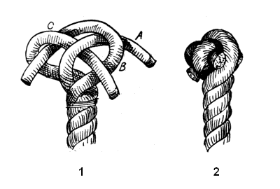 Making of (1) and completed (2) single crown knot.